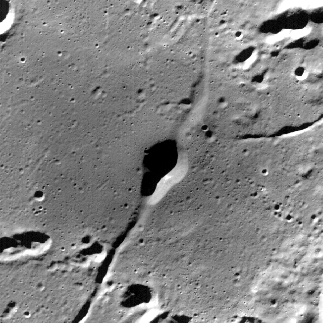 Small (9×5 km) crater Schrödinger G inside large crater Schrödinger on the Moon. It is interpreted as a volcanic crater (Kramer et al., 2013). Dark halo of ejecta (pyroclastic material) is seen. Photo by Lunar Reconnaissance Orbiter, made with Wide Angle Camera on 15 February 2013 from altitude 40 km. Sun elevation is 19.1°. Width of the photo is 40 km, north is approximately up (5° to the left).